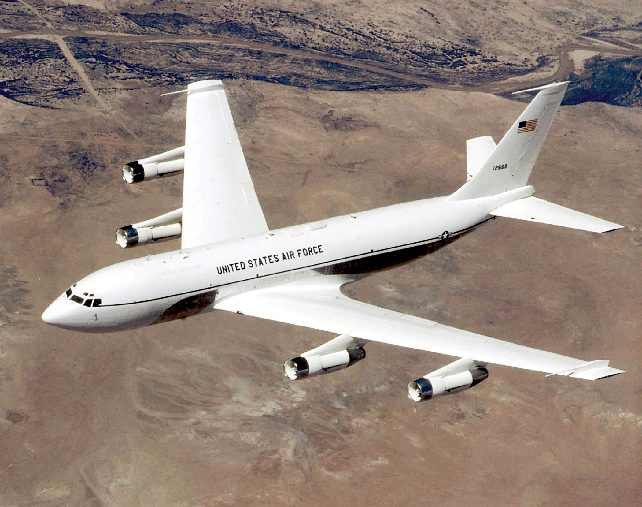 Boeing C-135C Speckled Trout (61-2669)